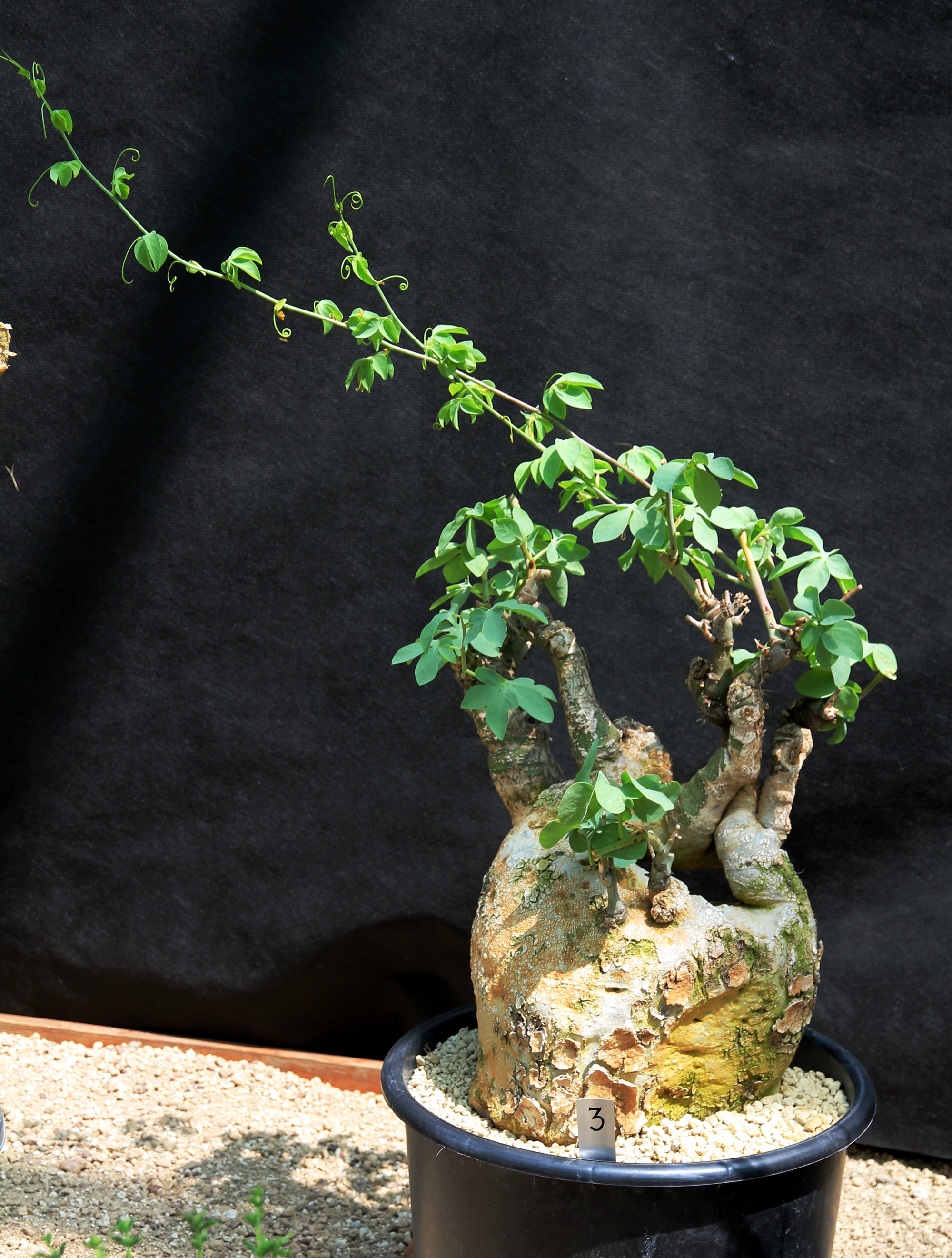 Succulent Adenia glauca on Exhibition of Cactuses and succulets in the Botanical Gardens of Charles University, 28.05. - 15.06.2016 Prague, Czech Republic